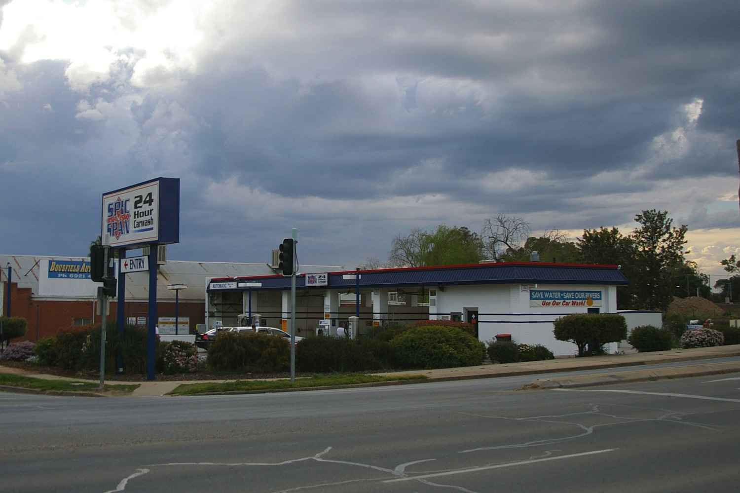 Carwash on Lake Albert Road. (Formerly Carlovers Carwash)